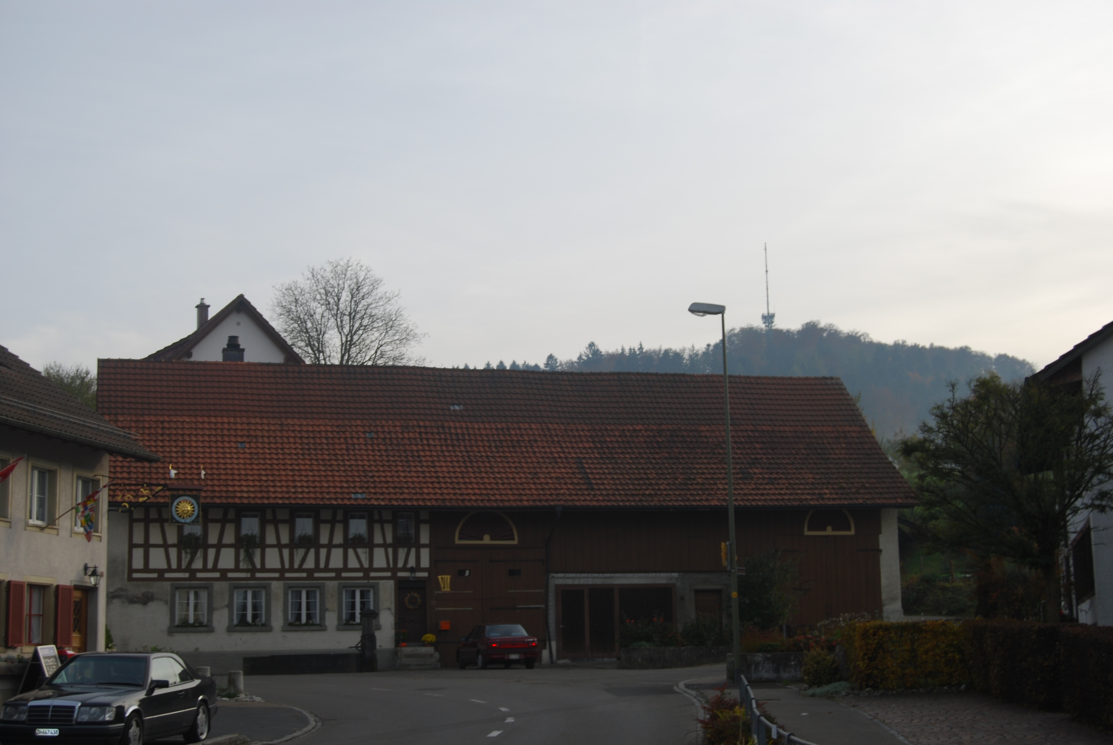 Buch am Irchel, view to Irchel tower, canton of Zürich, SwitzerlandEsperanto: Buch ĉe Irchel, rigardo al Irchel-Turo, Kantono Zuriko, Svislando